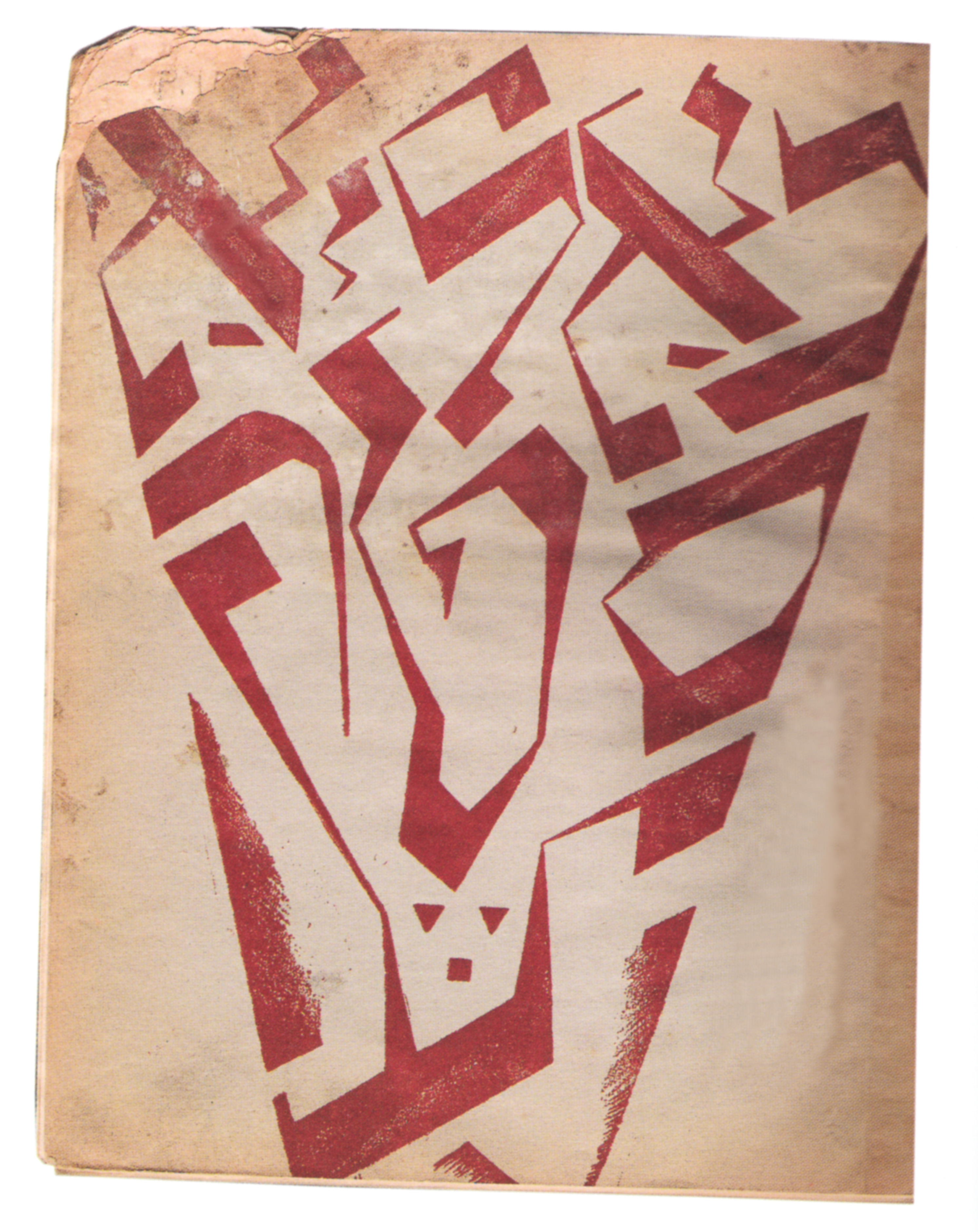 Cover 1st edition of כאַליאַסטרע (Khalyastre)